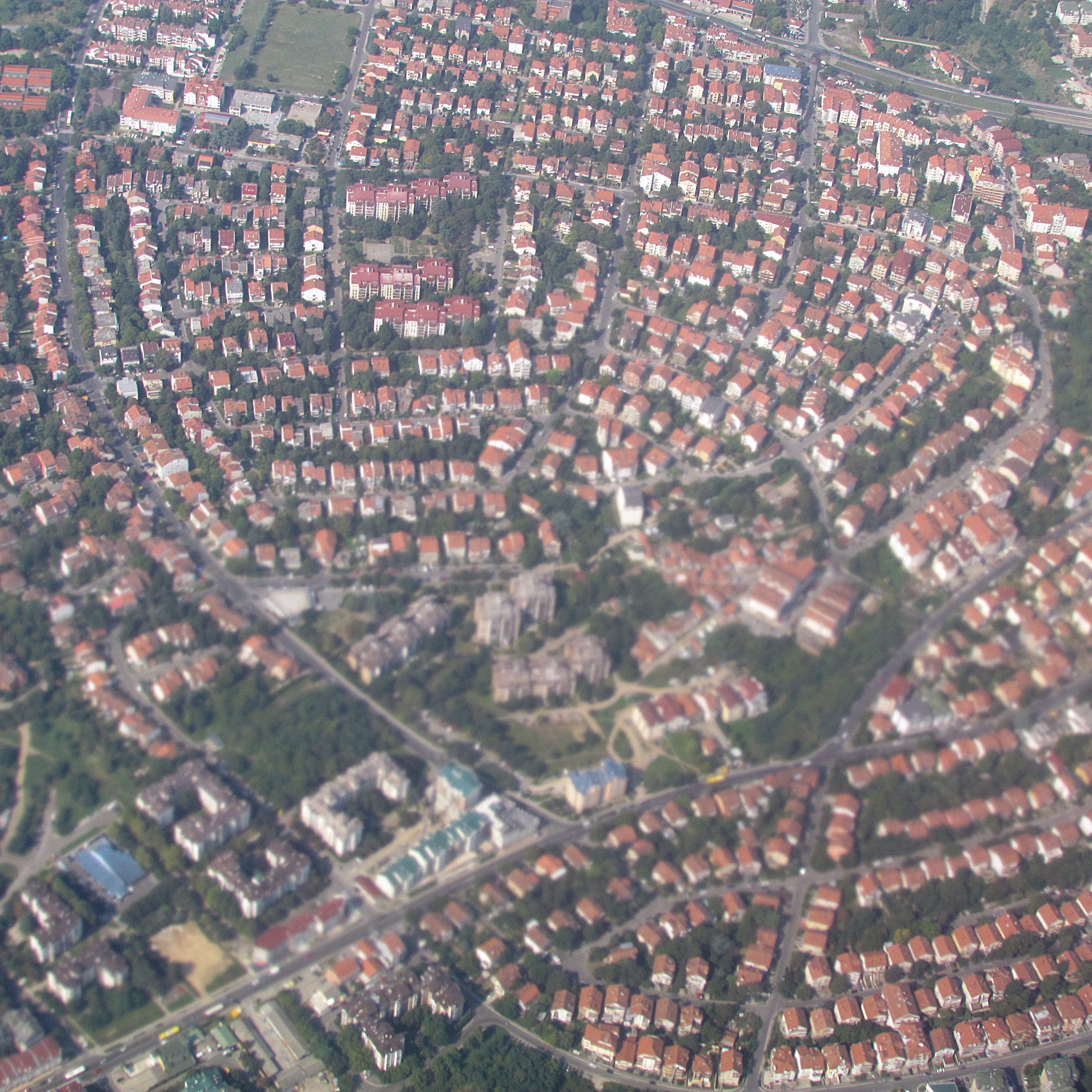 Cerak (Belgrade suburb) from air